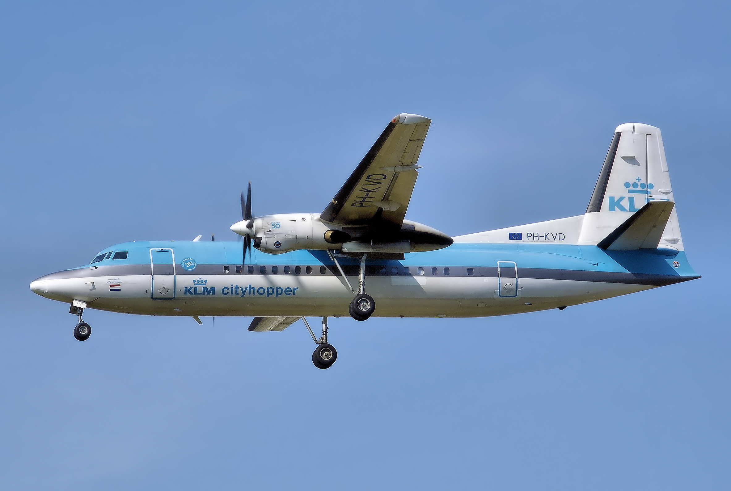 KLM Fokker F50 (PH-KVD) landing at London Heathrow Airport, England.